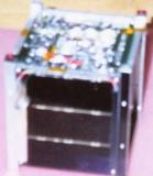 Image of the Rincon 1 Satellite.